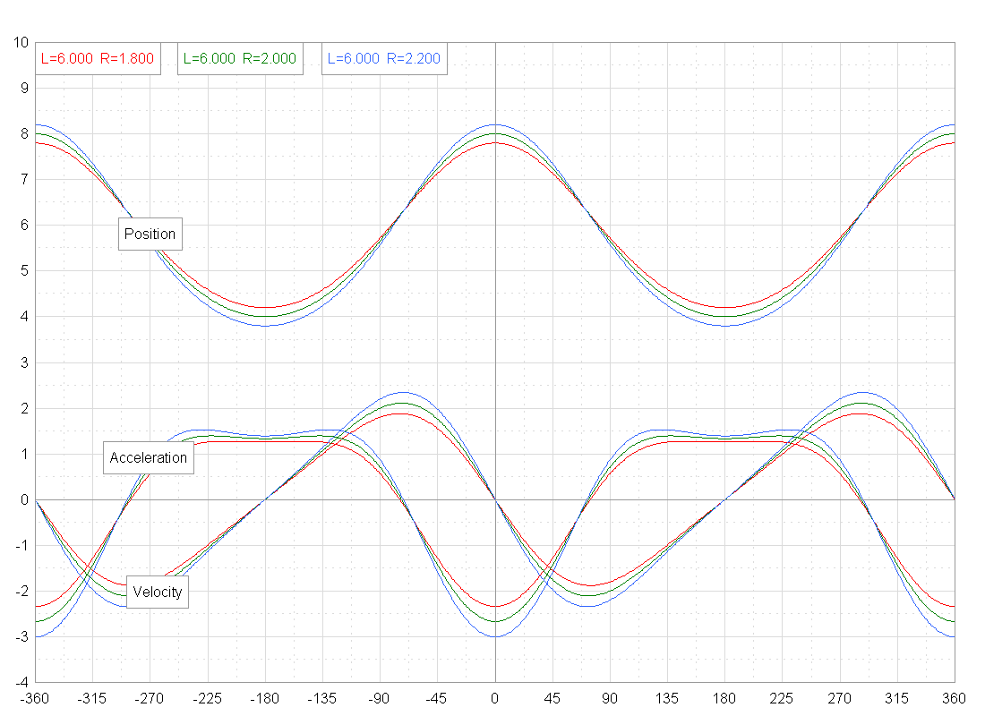 Graphs showing piston motion for various half strokes for an internal combustion engine. joecar 18:11, 17 May 2006 (UTC)